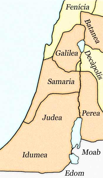 Kingdoms under Herod the Great, highlighted in red